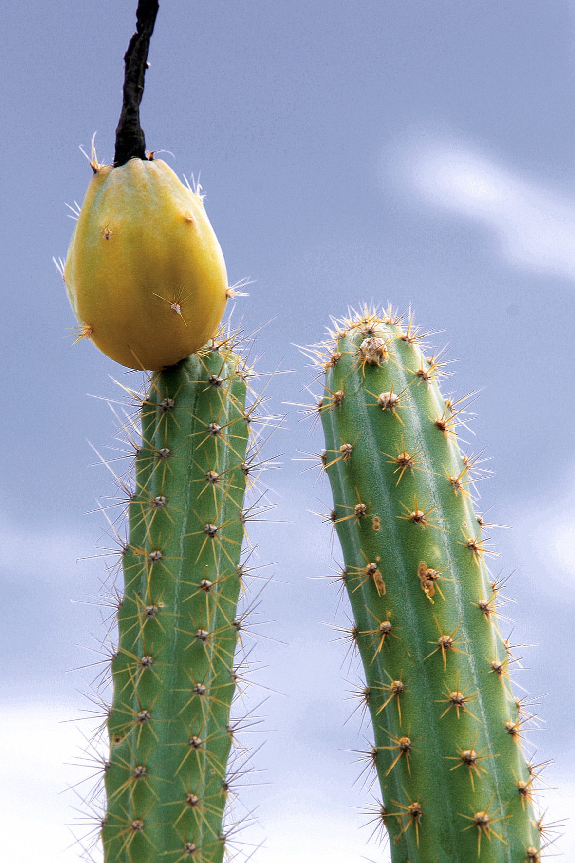 Holotype collection, with fruit, Goias, Brasil